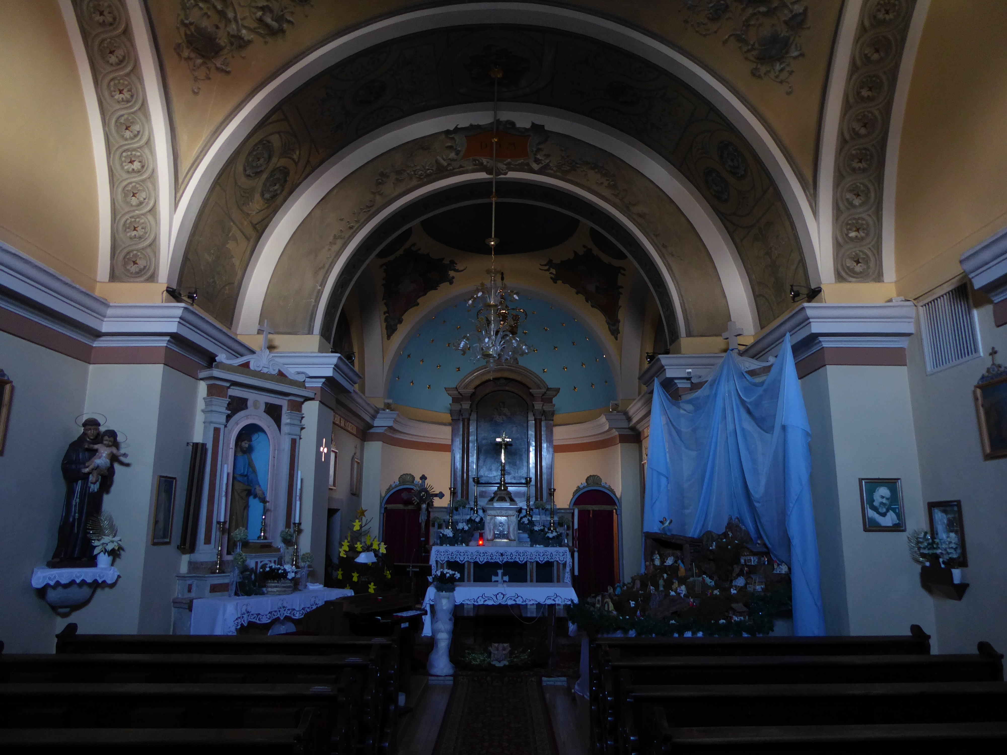 Regnana (Bedollo, Trentino, Italy) - Our Lady of Graces church, interior